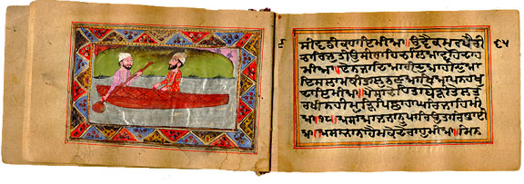 Luddan ferries Ranjha across the River Chenab, c. 1850. Gouache with gold and silver, 8.8 x 14.1 cm.